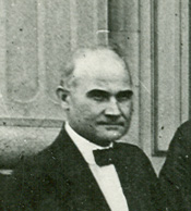 Former United States Representative from Oklahoma Joseph Bryan Thompson.